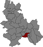 Location of la Torre de Claramunt in Anoia